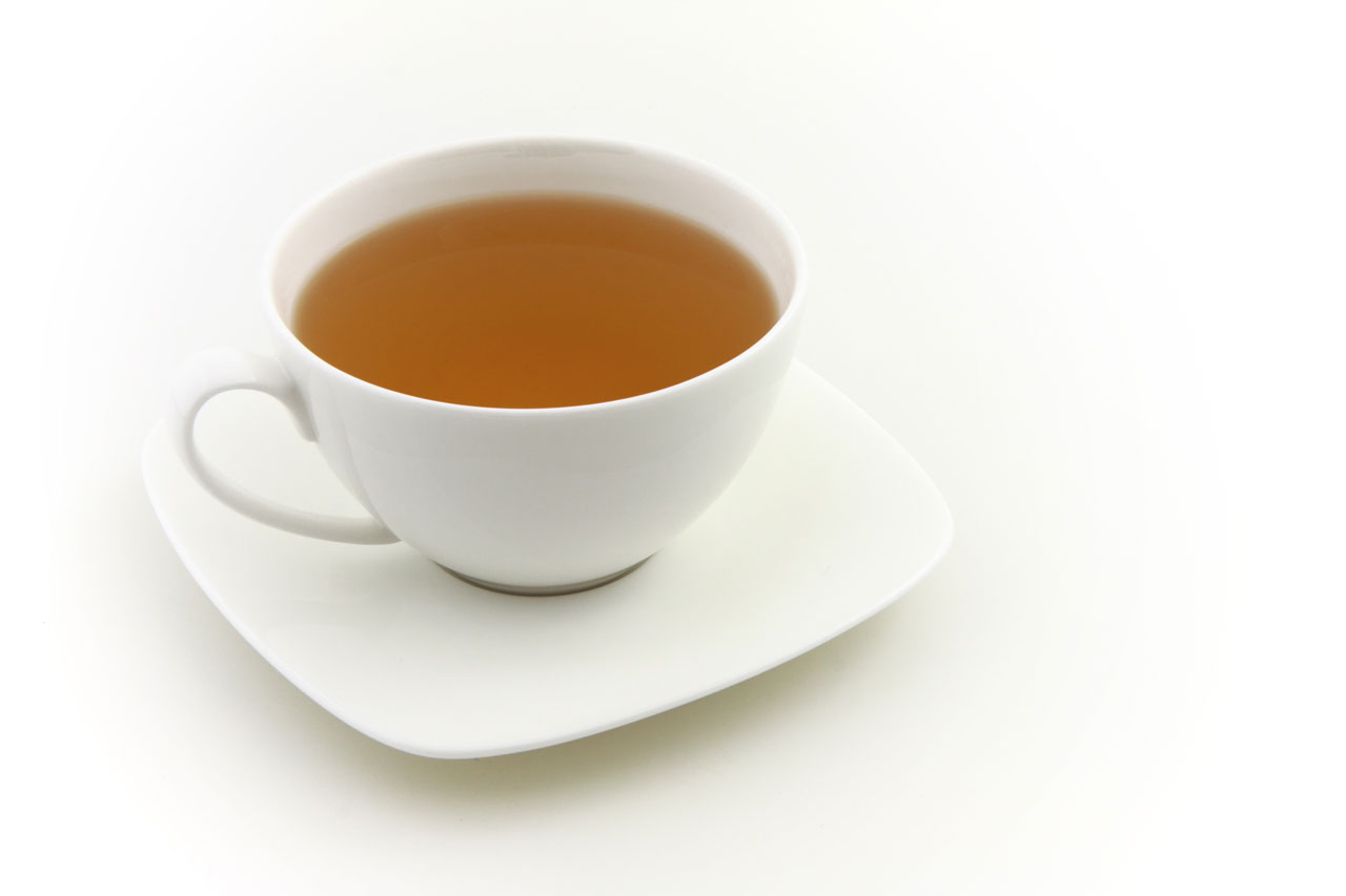 Mint tea on white background.